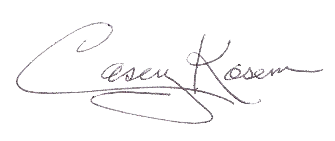 Casey Kasem's signature